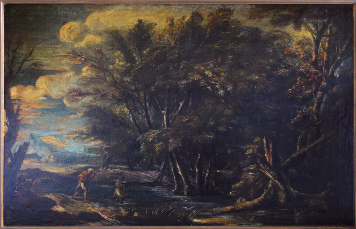 Salvator Rosa successor, paintings before 1837, "Landscape with Mercury and the dishonest woodman"